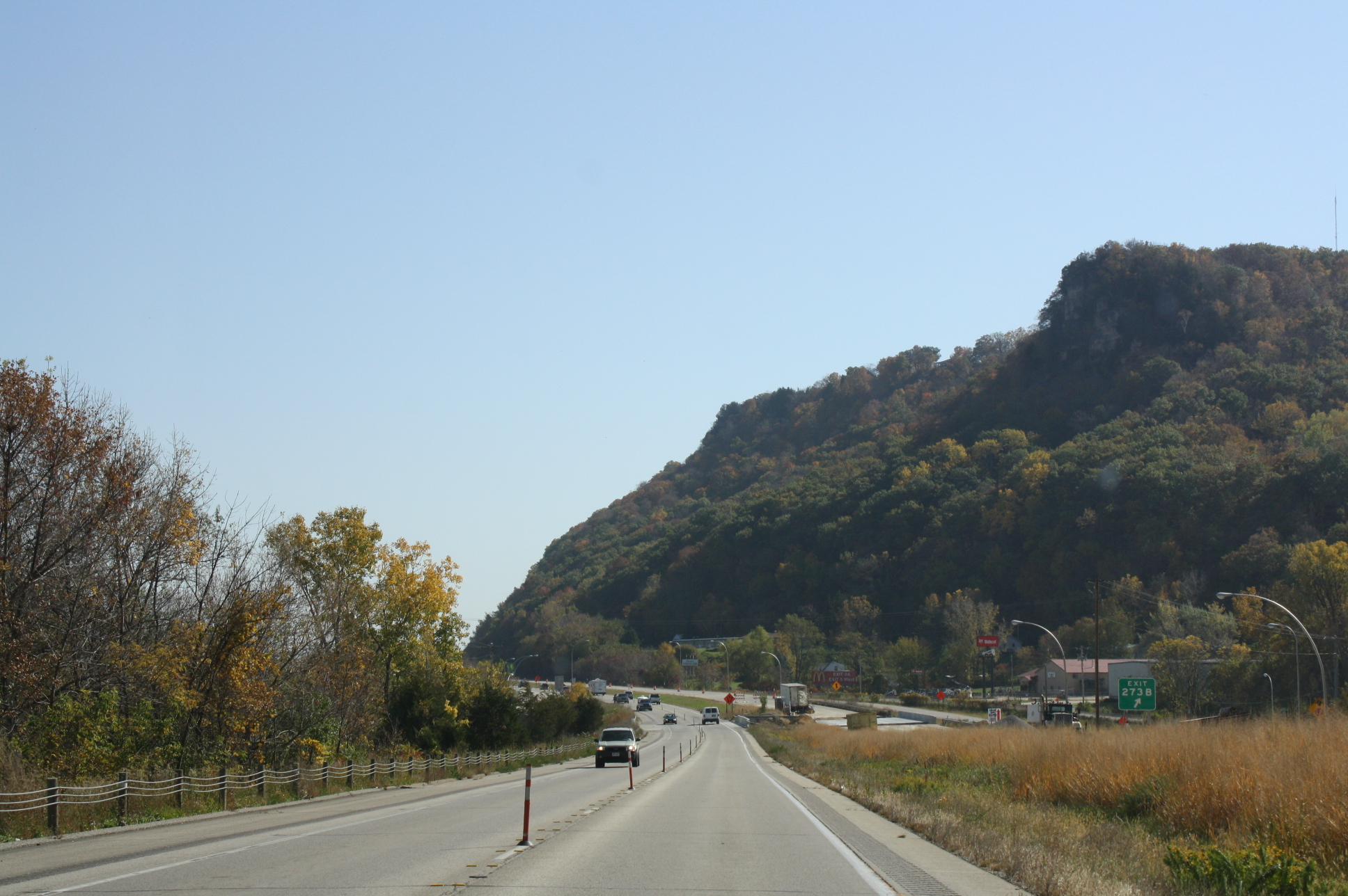 Looking south at Dresbach, Minnesota while traveling on Interstate 90.